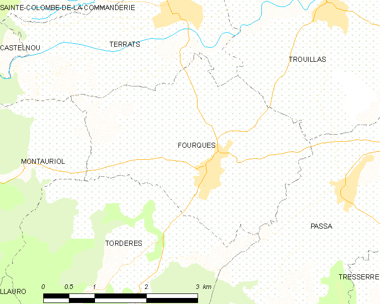 Map of French municipality